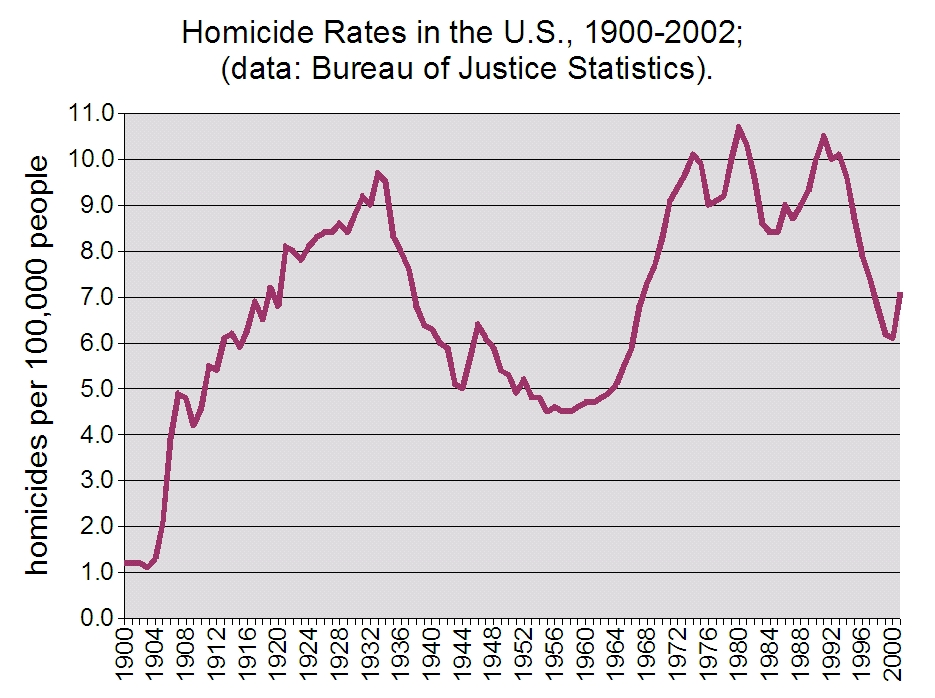 This is a chart showing trends in homicide rates in the U.S. from 1900-2001.